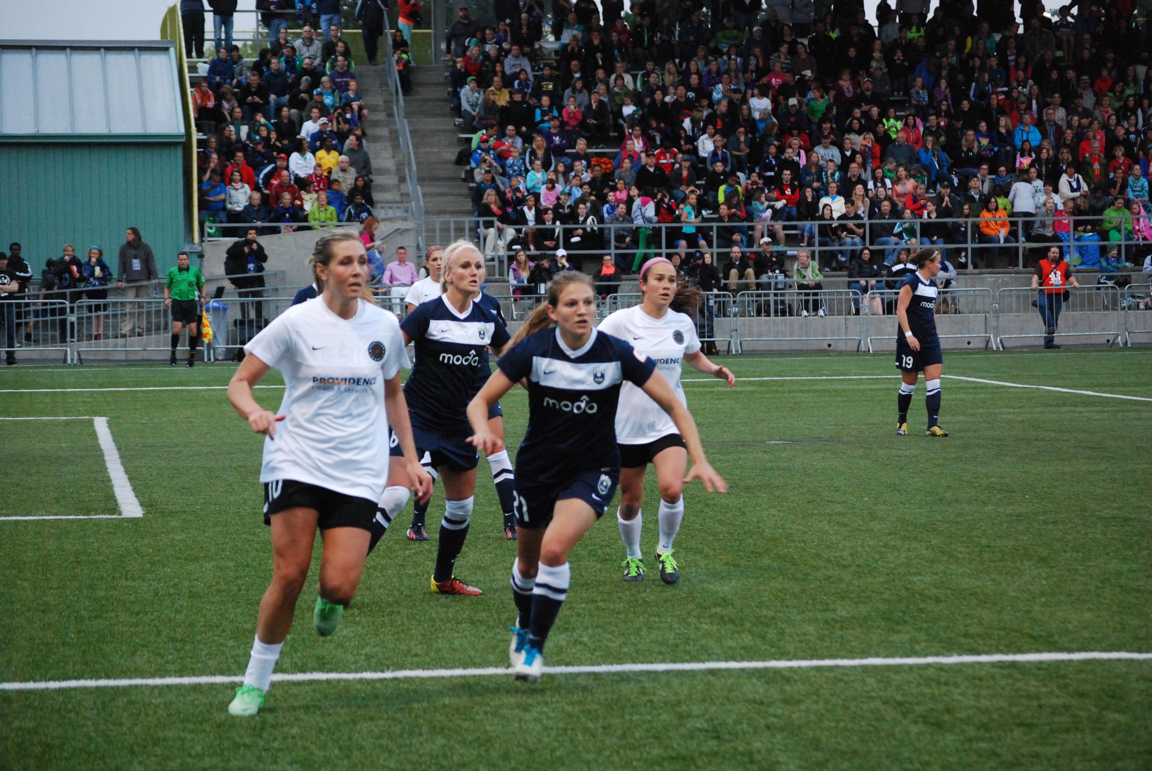 Kristen Meier of Seattle Reign FC vs Allie Long of Portland Thorns at Starfire Stadium in Tukwila, Washington on May 25, 2013